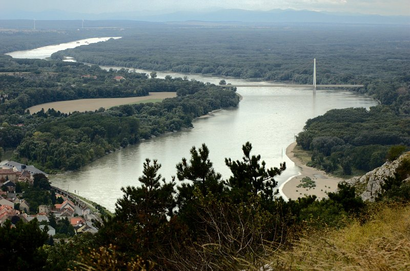 Danube in Hainburg an der Donau, Lower Austria